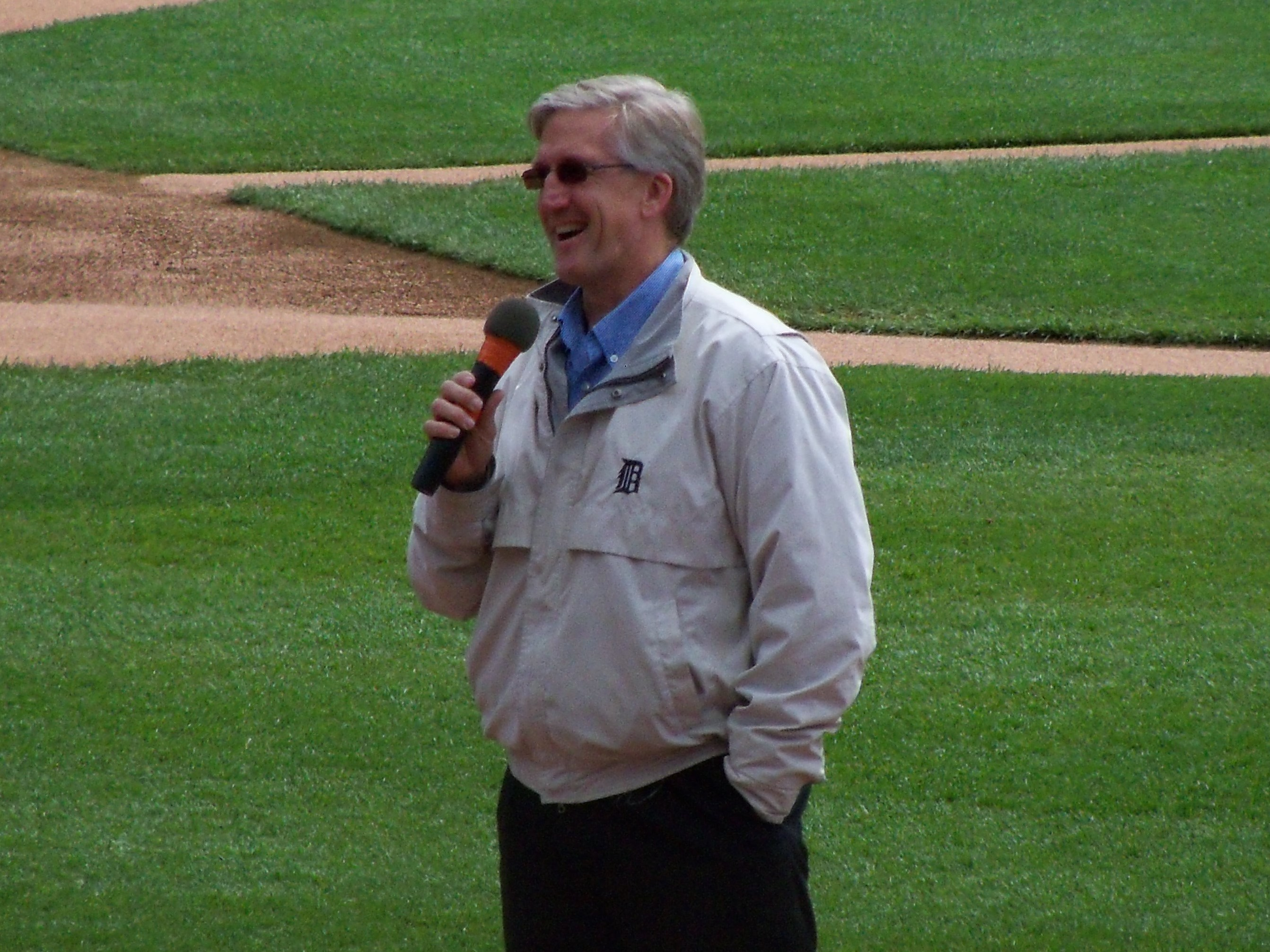 Detroit Tigers radio broadcaster Dan Dickerson talking to fans during Career Day at Comerica Park on April 28, 2011.